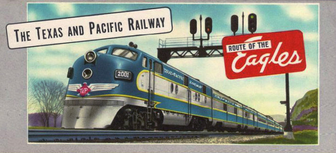 Depiction for Texas and Pacific Railway. The trains were designated as "Eagles"--Texas Eagle, etc. This depiction comes from the front of a railroad ticket for the line.